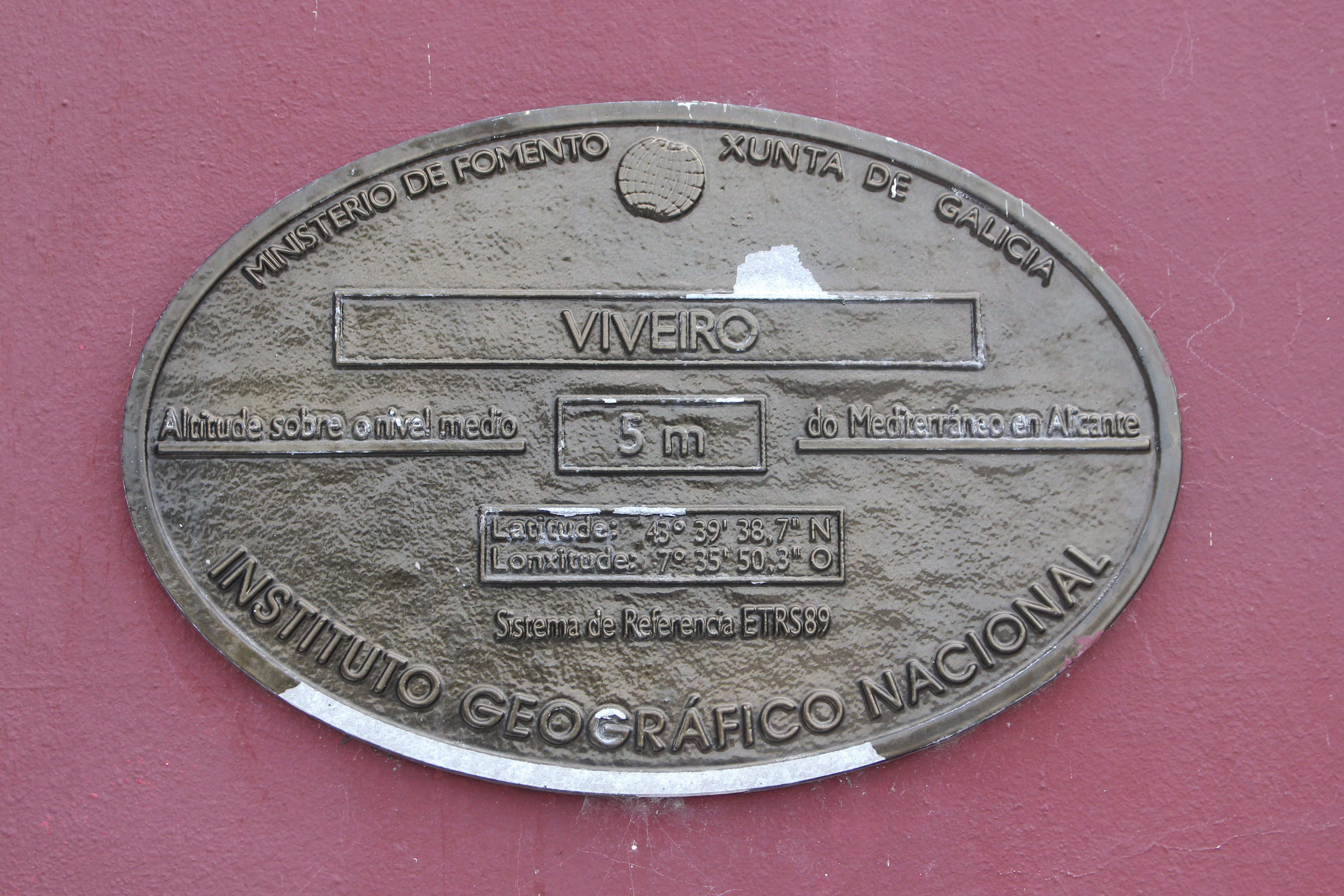 Benchmark in Viveiro with the reference system ETRS89.